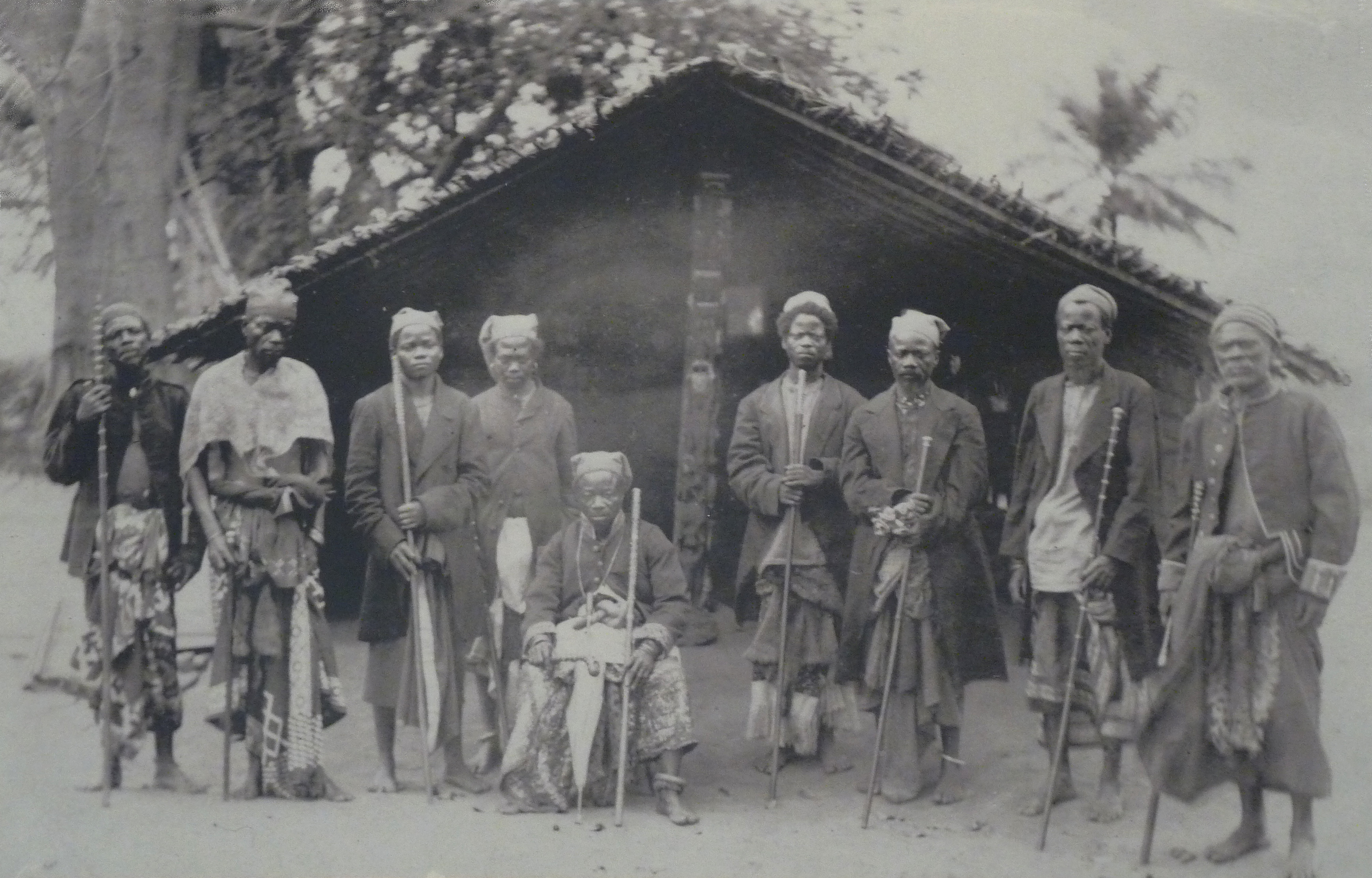 Herzekiah Andrew Shanu (died 1905): photograph of the nine ancient kings of Boma (1898). (Royal Museum of Central Africa)